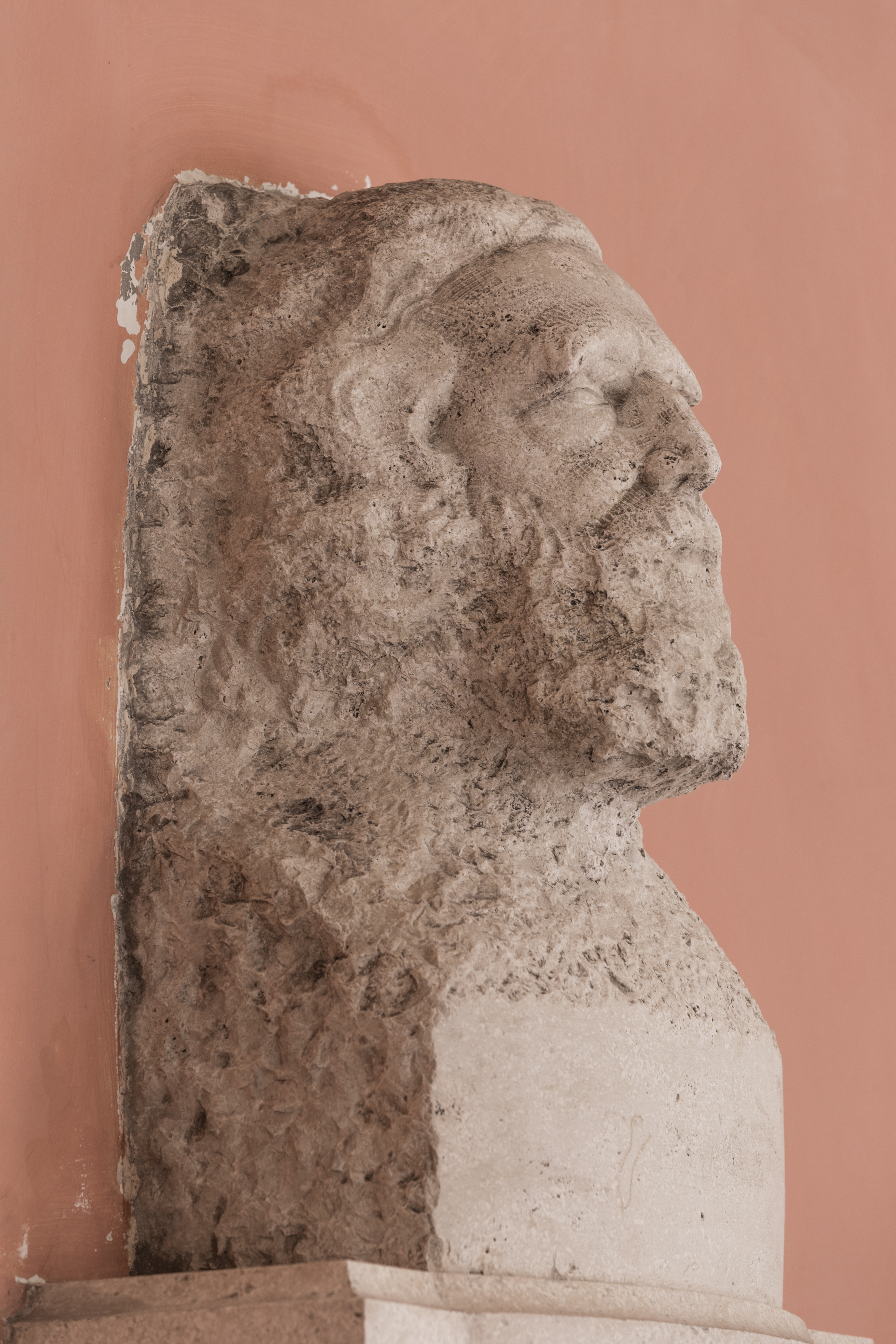 Franz Clemens Brentano (1838-1917), bust and plate (white marble) in the Arkadenhof of the University of Vienna, (Maisel# 10). Artist: Theodor Georgii (1883-1963), unveiled 1952